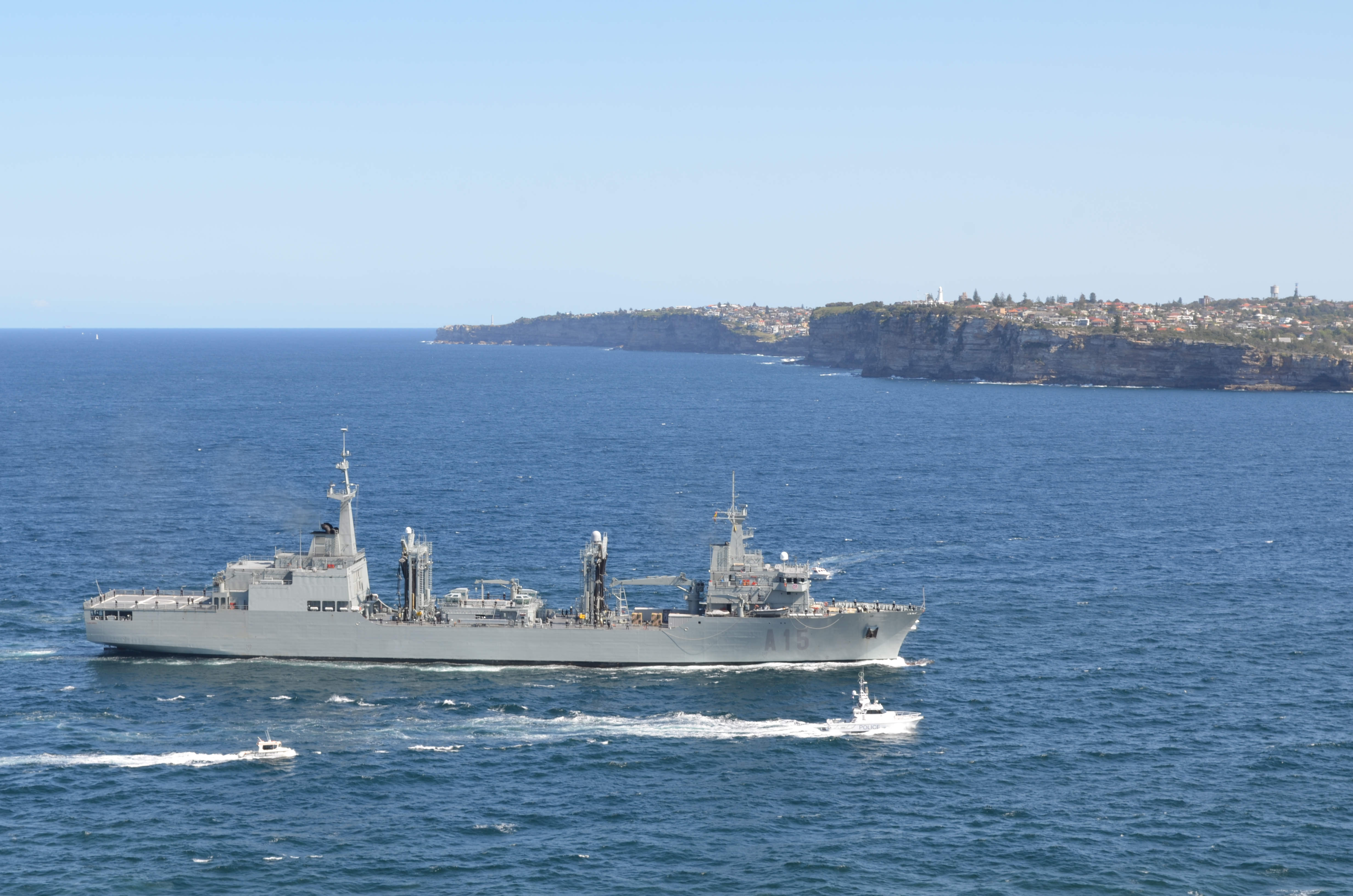 Photographs taken during day 2 of the Royal Australian Navy International Fleet Review 2013. The Spanish replenishment ship Cantabria entering Sydney Harbour as part of the warship fleet.